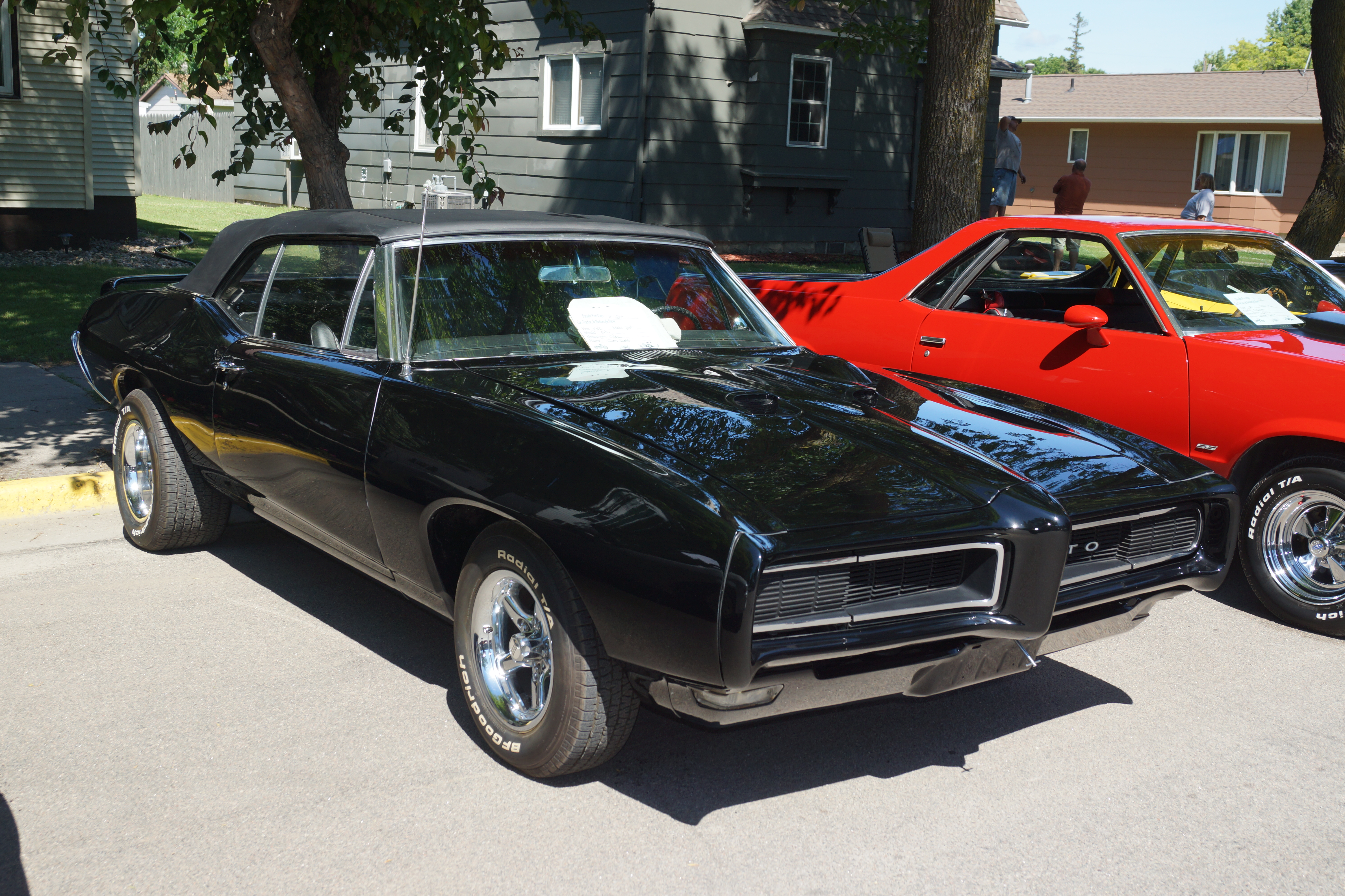 Click here for more car pictures at my Flickr site. Car Buffs' Breakfast July 2016 Bart's Place Renville, Minnesota & Danube Fun Days Tractor, Car & Motorcycle Show July 2016